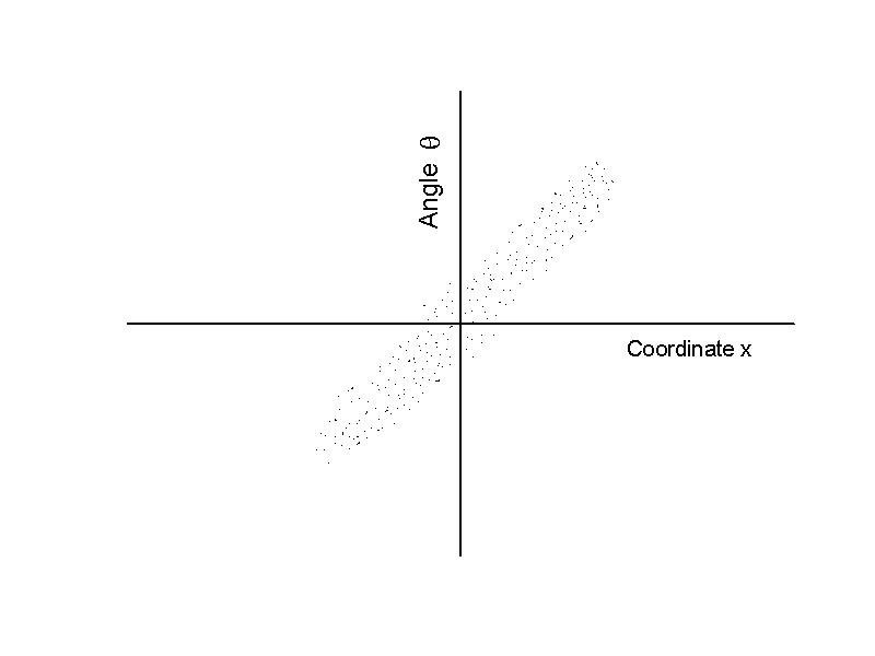 Emittance for particle beam